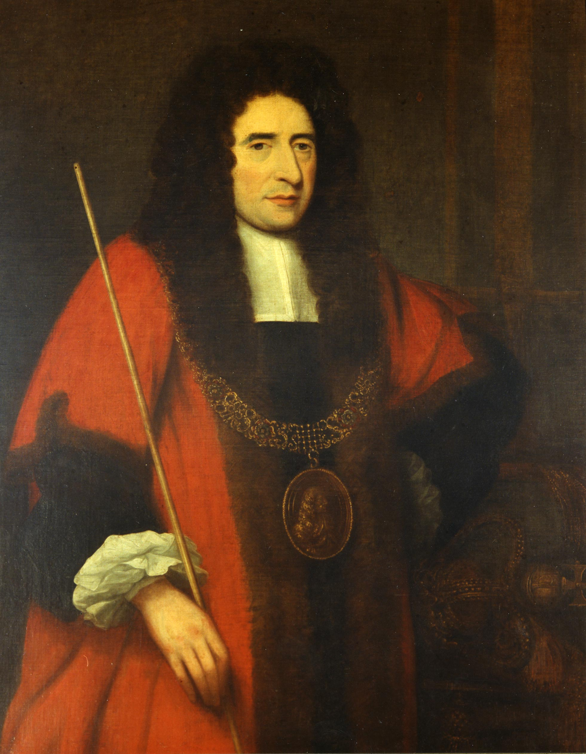 Portrait of Sir Humphrey Jervis, Lord Mayor of Dublin. Presented in 1988 by Lady Hutchison, a direct descendant of the sitter.